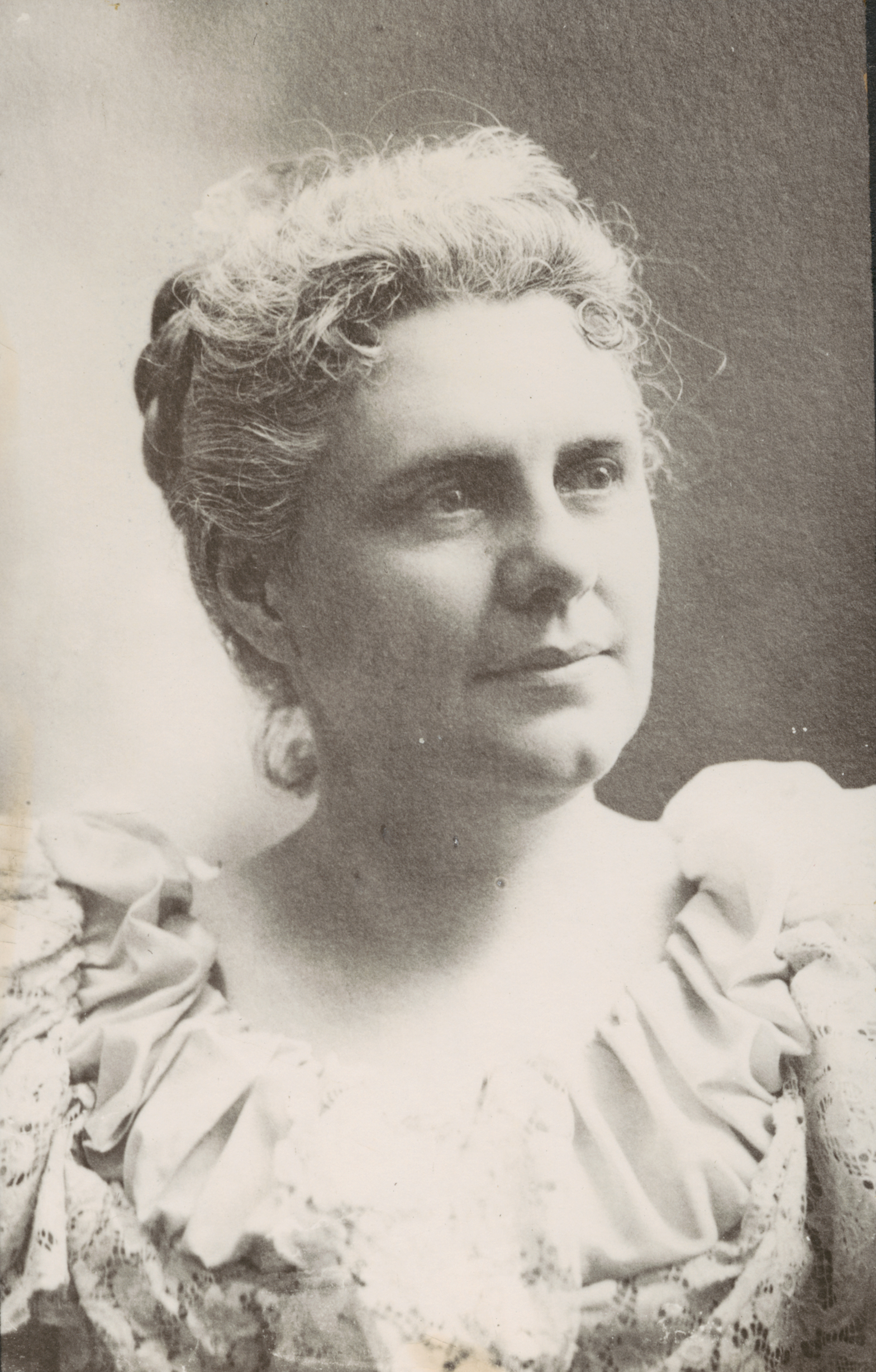 Anna Botsford Comstock Nature Study Portrait